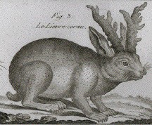 Image of a rabbit with horns (Lepus cornutus) from Bonnaterre's Tableau Encyclopedique et Methodique, 1789